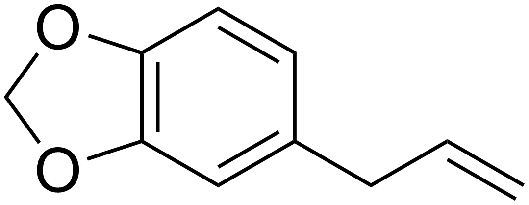 chemical structure of safrole